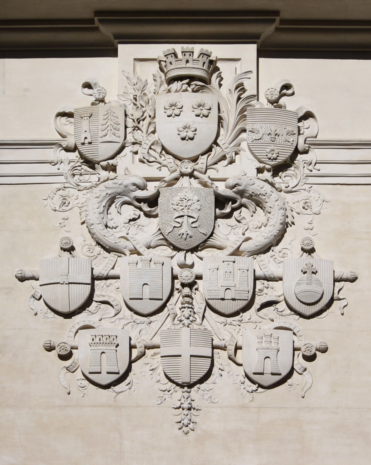 Coats of arms on the facade of the old courthouse of Grenoble (Palais du parlement du Dauphiné).